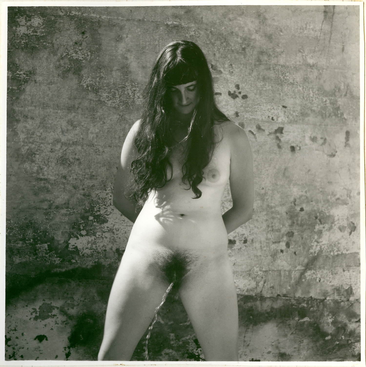 Fine art black and white photograph of a standing woman urinating Photo by Robert Toren aka Photo Robert aka Angrylambie